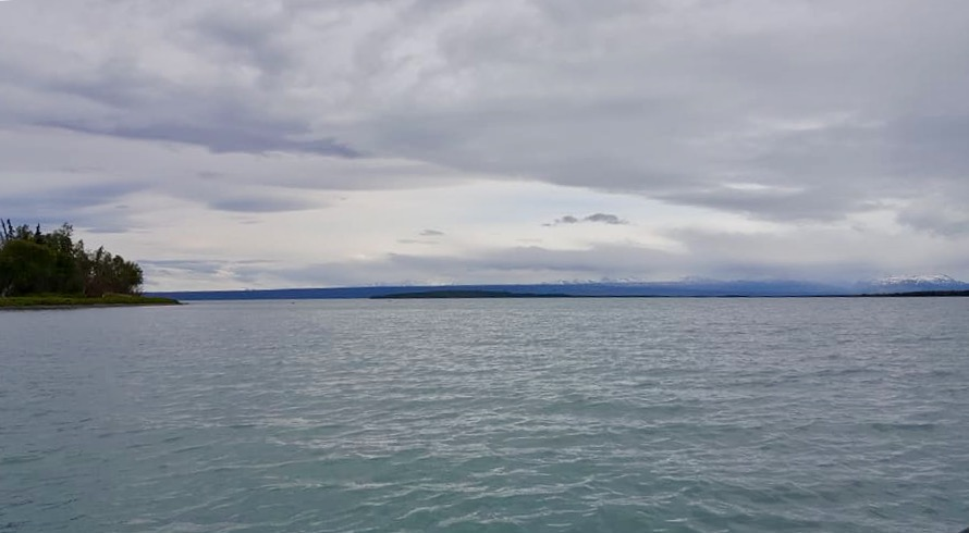 Tustumena Lake, Kenai Peninsula, Alaska, seen from where the Kasilof River flows out of the lower lake